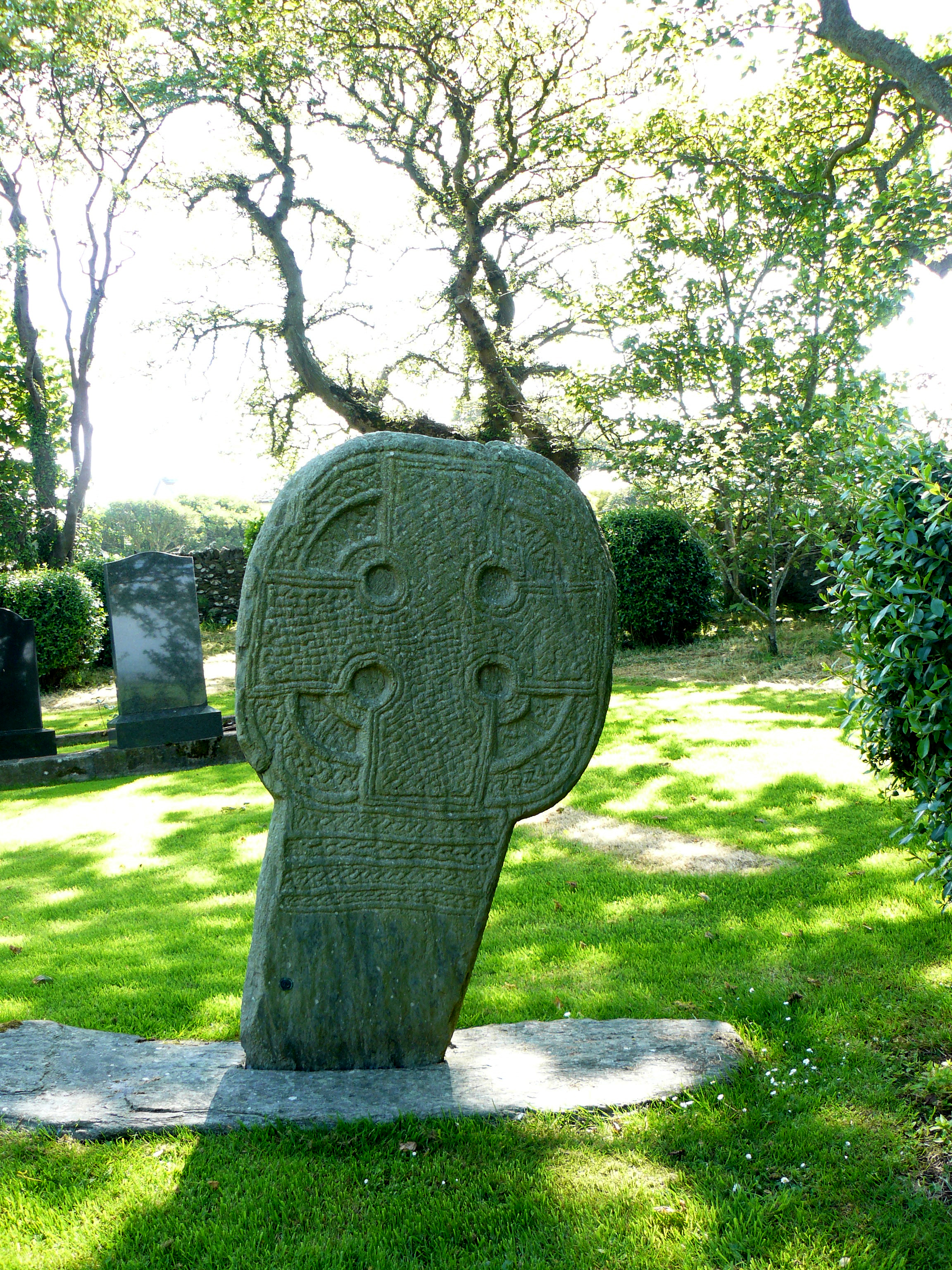 Celtic Style Cross outside the St. Lonan Old Church on the Isle of Man.